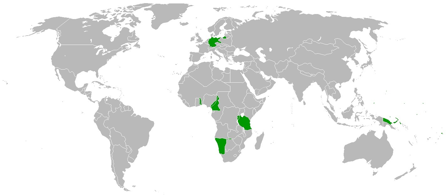 German Empire within the borders from 1919 to 1935 (Saar status referendum) and the League of Nations mandates of the former German colonies.